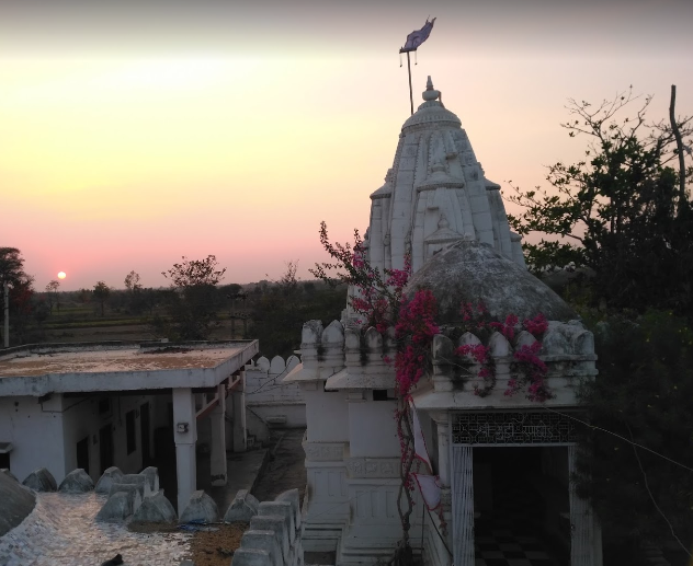 Ranchhod ji Temple picture taken for Wikipedia article